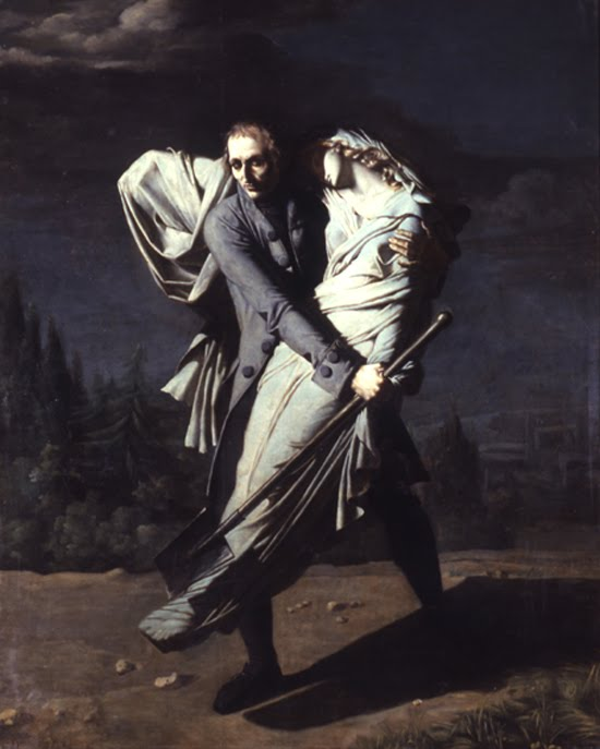 Edward Young and His Daughter